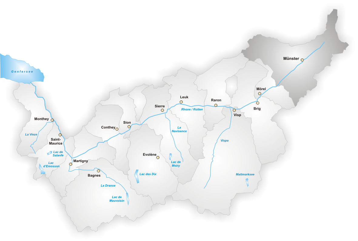 District Goms